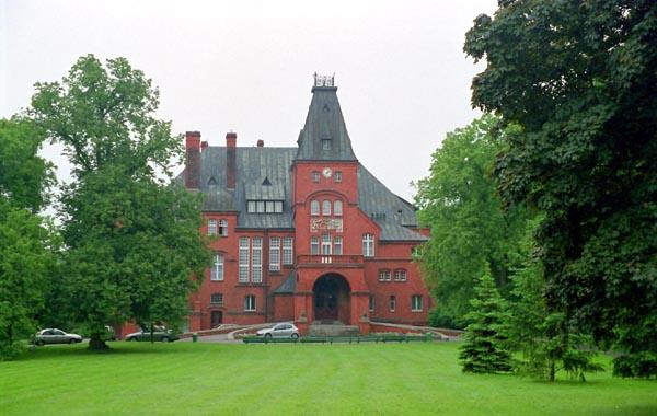 Kobylniki in Poland